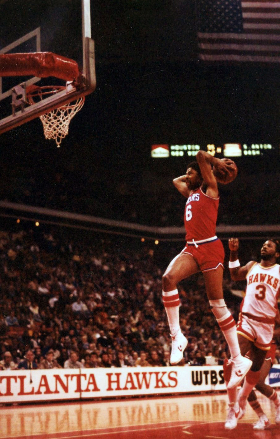 Julius Erving in 1981 performing a slam dunk against the Atlanta Hawks at Omni Coliseum.